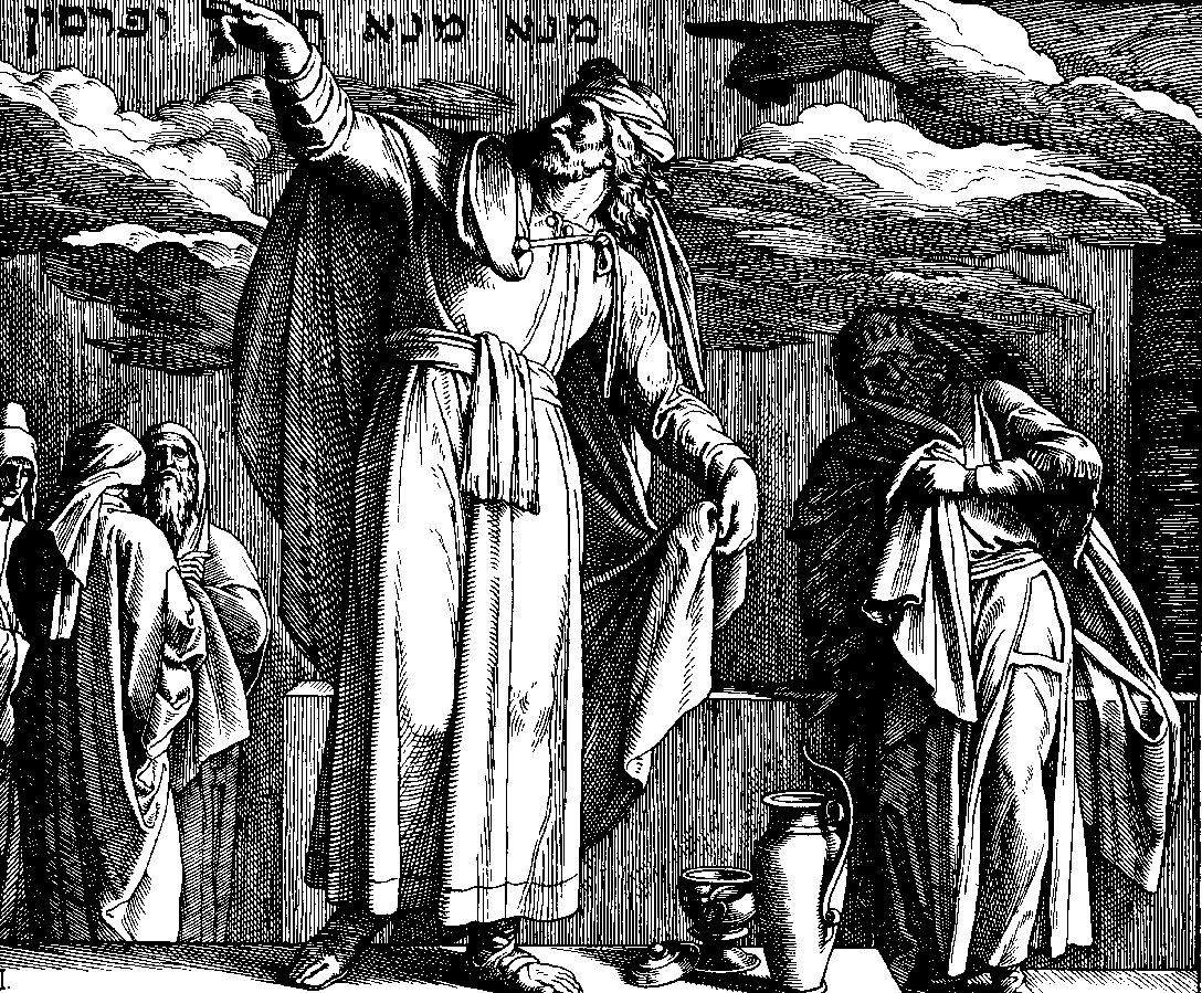 Woodcut for "Die Bibel in Bildern", 1860.